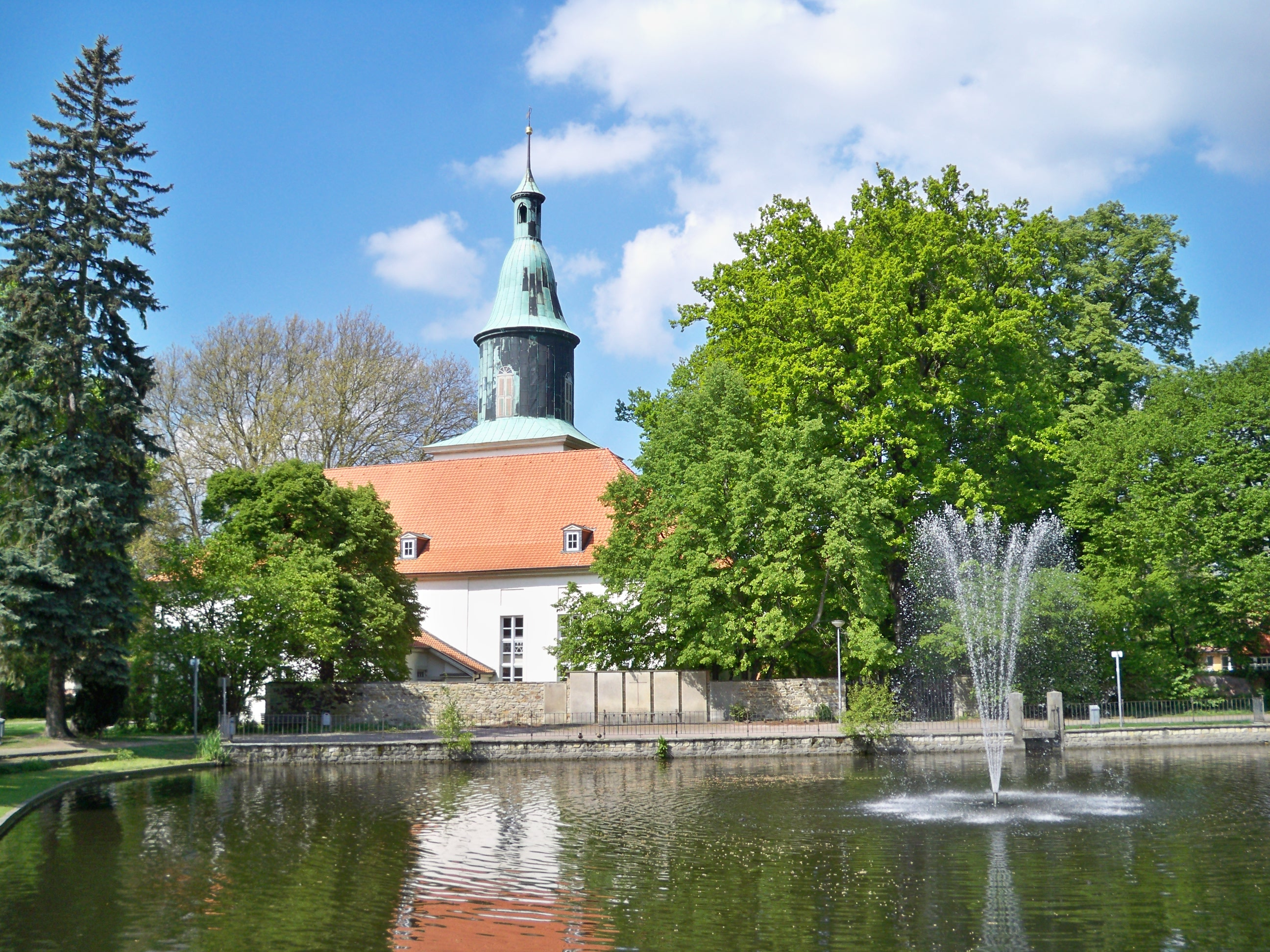 Wolfsburg-Fallersleben, Lower Saxony, castle pond and St. Michael's Church